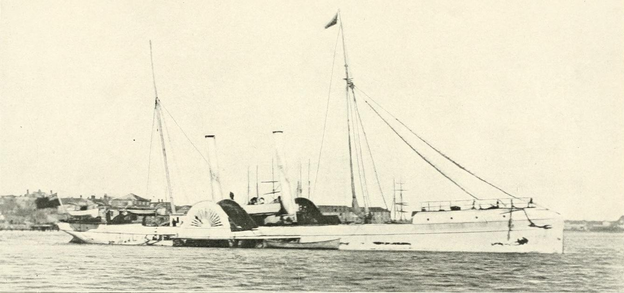 CSS Robert E. Lee See companion photo: File:BlockadeRunnerRobertELee2.jpg